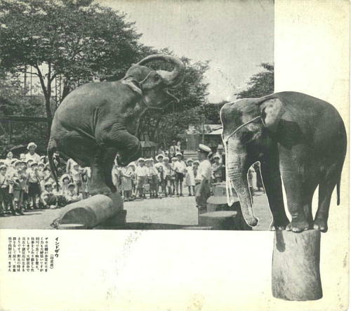 A elephant of Ueno Zoo. A photograph before 1937. Japan.